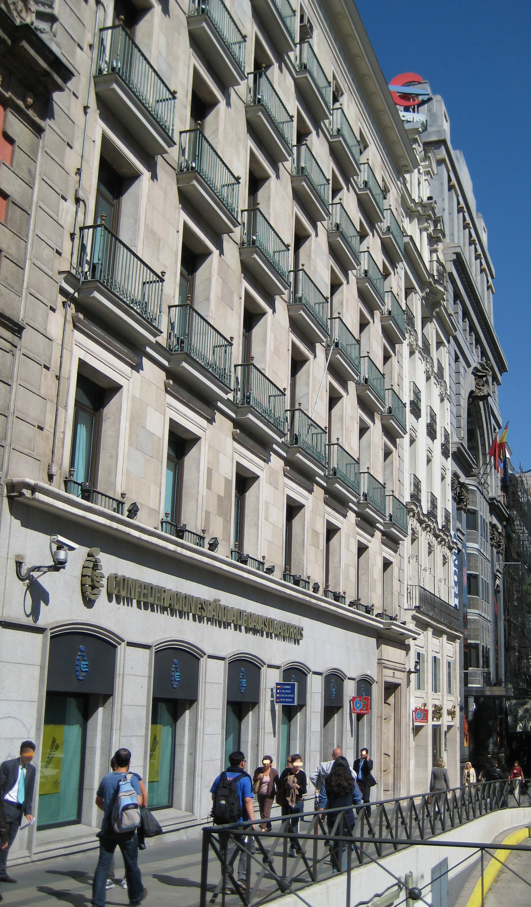 Central offices of the Spanish Confederation of Savings Banks, in 27 Alcalá Street in Madrid. The building behind holds offices of Ibarcaja, one of the members of the Confederation.